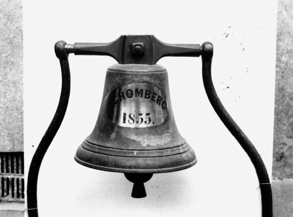 Bell of the ship Schomberg Ship's bell from the vessel Schomberg. The ship was wrecked at Cordies Inlet in Victoria on its maiden voyage, 1855. The Bell is in the Warnambool Museum, southern Victoria.